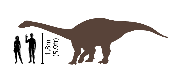 diagram by me user debivort 12.07